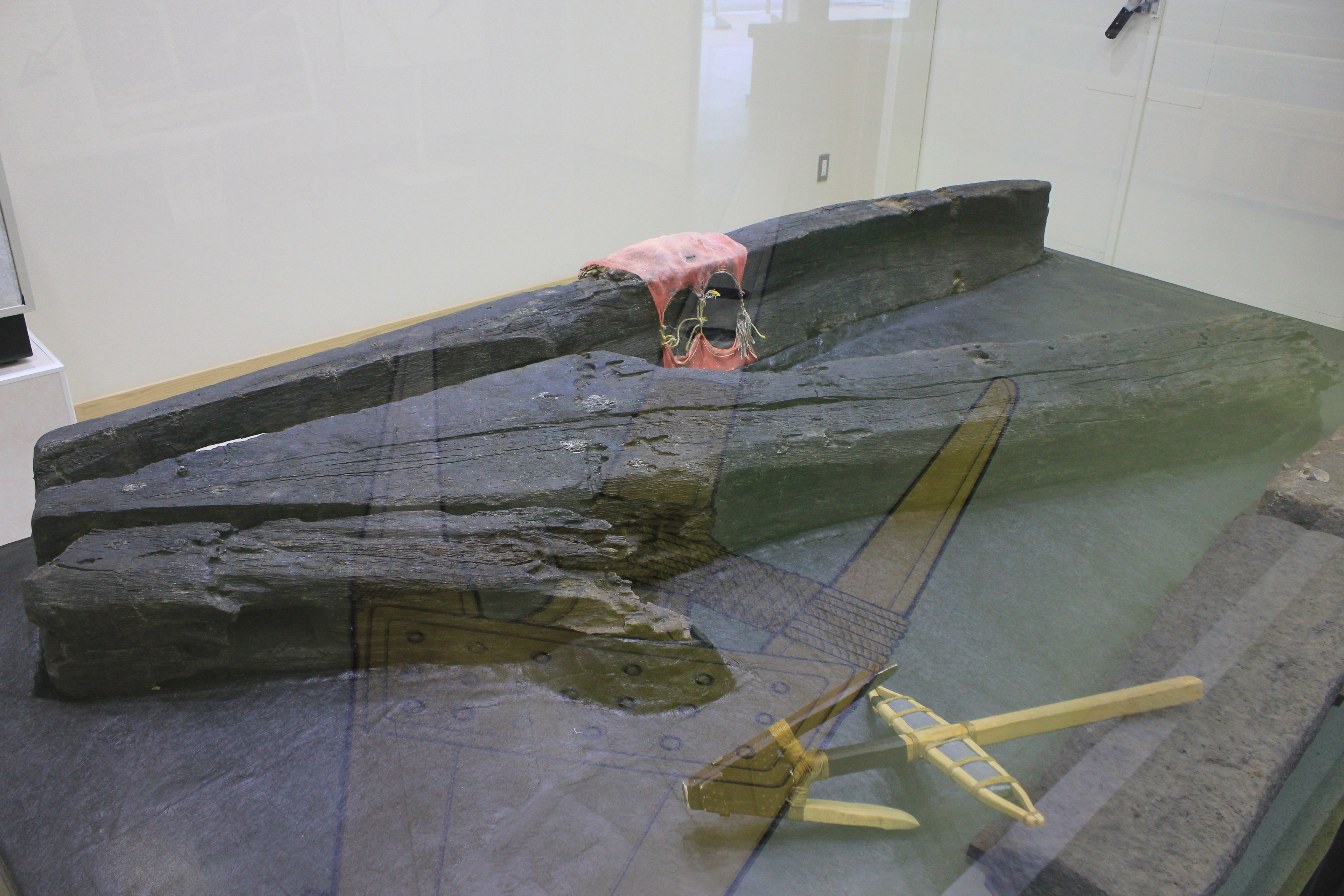 The anchor of a Mongolian army